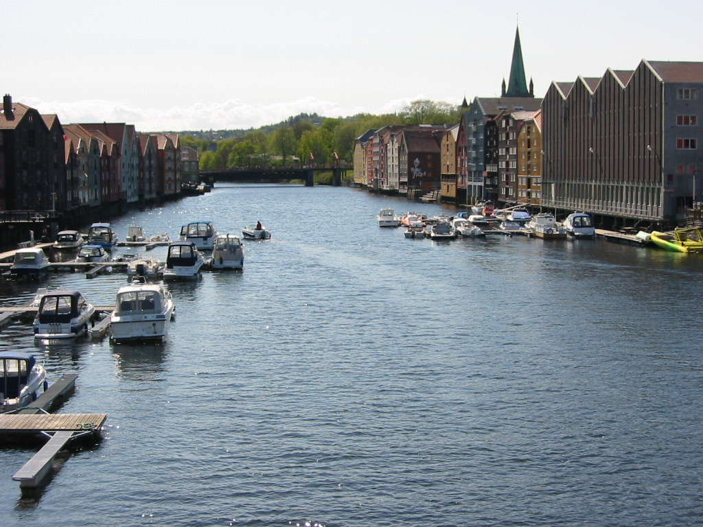 Nidelva river, Trondheim. Picture taken from Bakke Bridge towards south. The bridge in the picture is Gamle Bybro (Old Town Bridge).